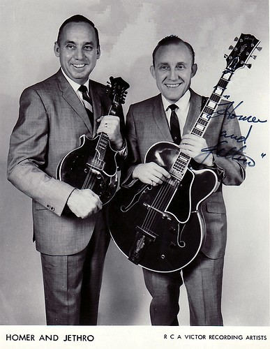 Publicity photo of Homer and Jethro. Note: This image was previously licensed as non-free promotional.